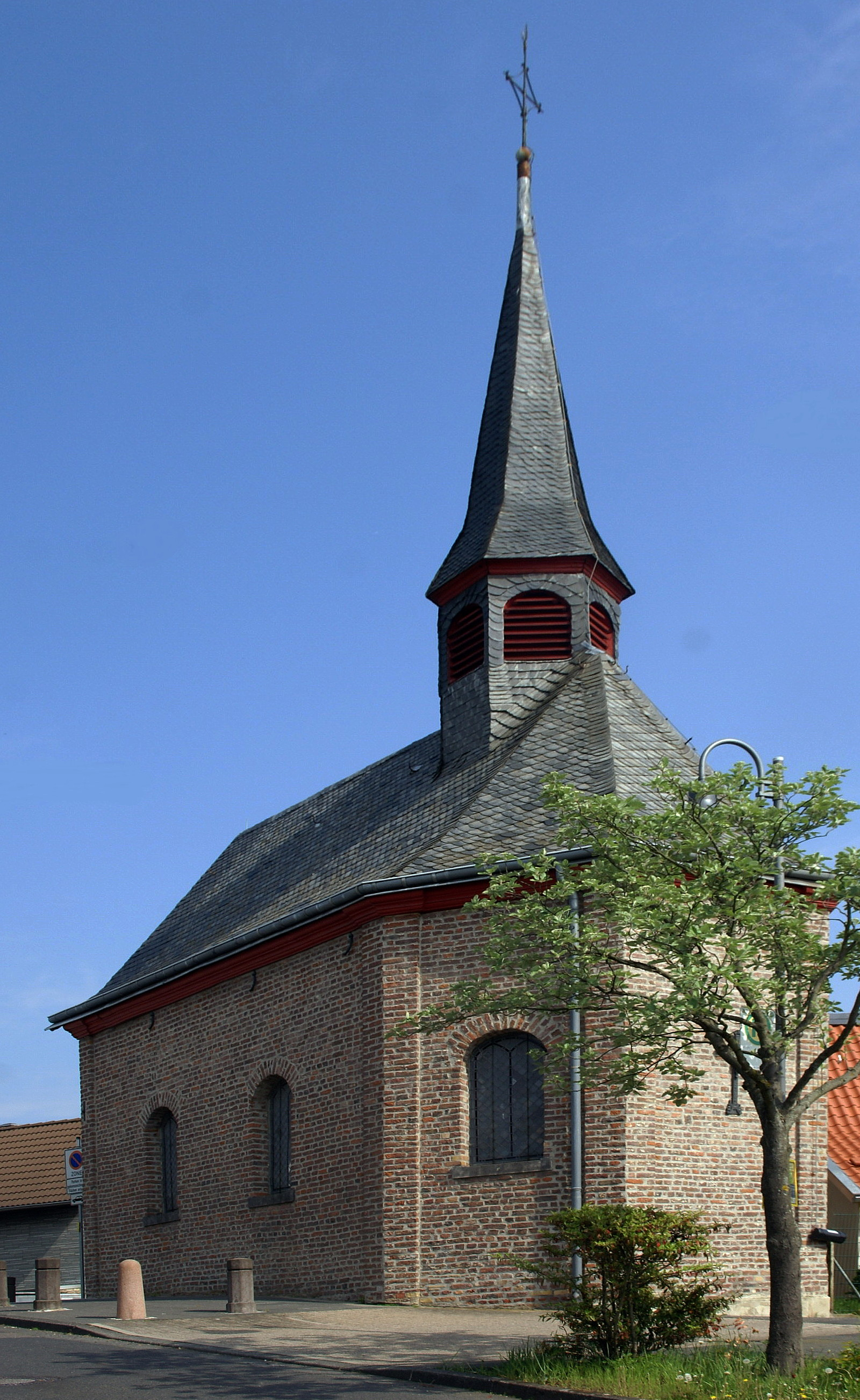 Chapel St. Mariä Vermählung in Oedekoven, sight from the Ginggasse